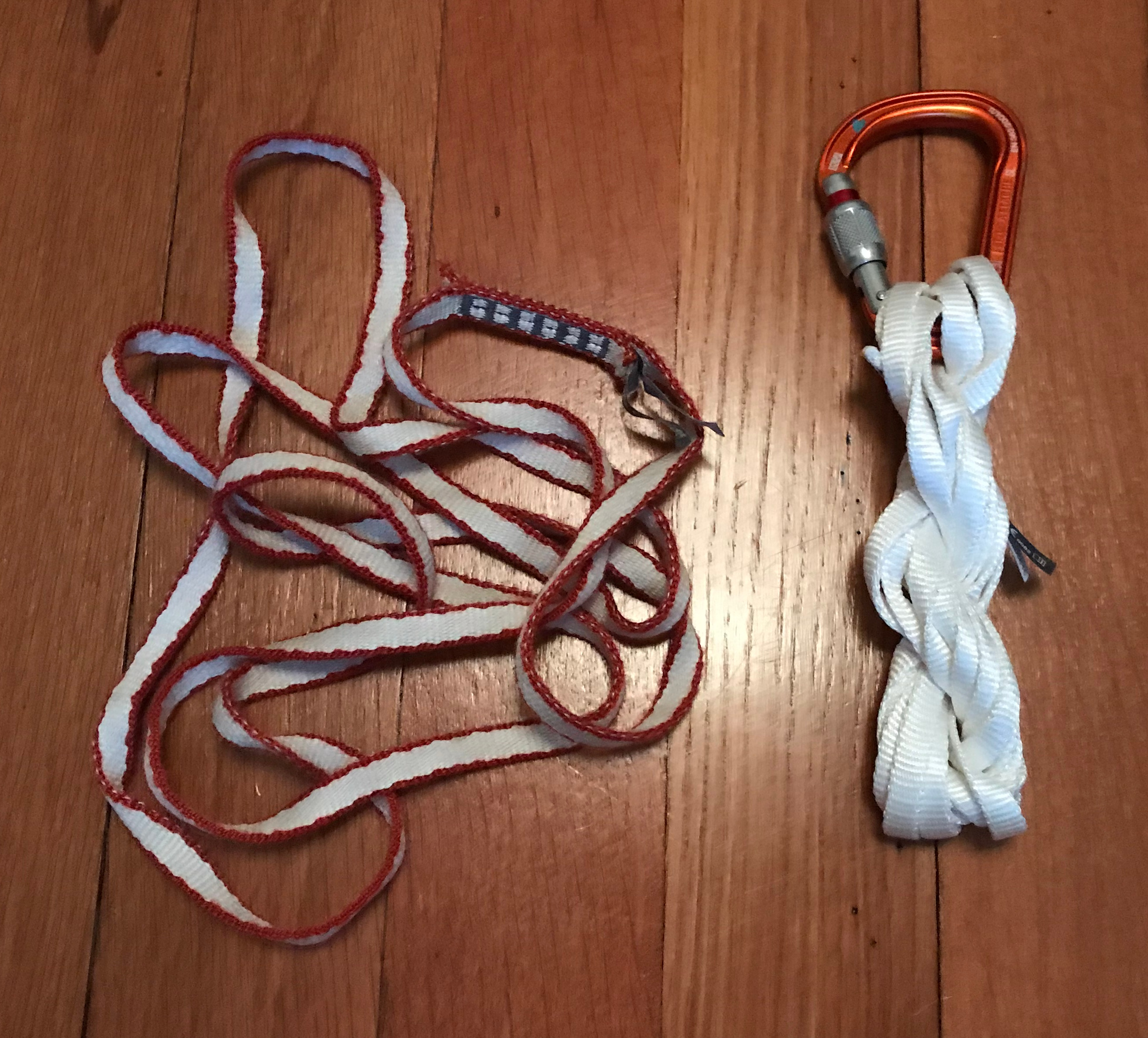 Petzl